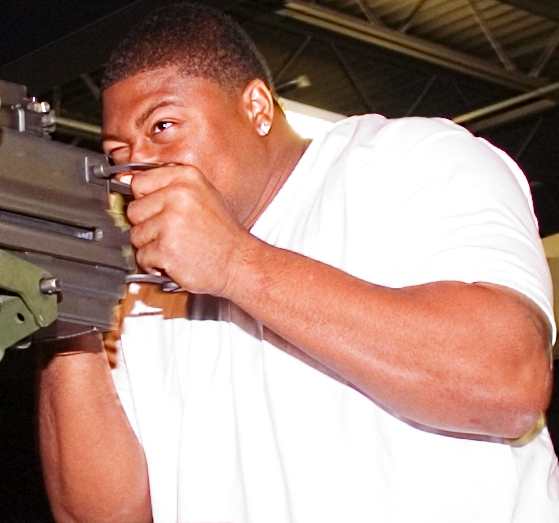 Dallas Cowboys player and defensive end Stephen Bowen tries his hand at the simulated MK-19 grenade machine gun at the Engagement Skills Trainer 2000 during his and Cowboys teammate Jay Ratliff's visit to Fort Bliss.